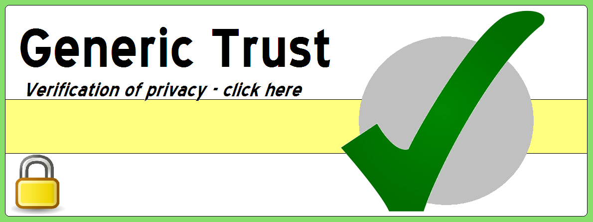 This is a generic example of a trust file.